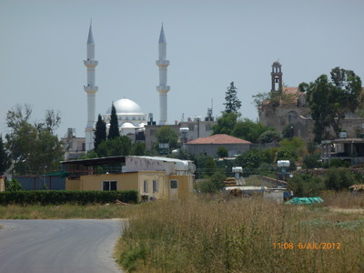 The village of Marathovounos from the northern Tsiados road. Note to the left the new Mosque and to the right the remains of the Church of Profitis Ilias.Photo: C. Moisa, 2012.